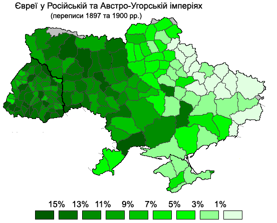 Jews in ukrainian parts of Russian and Austro-Hungarian empires, 1897 and 1900 censuses